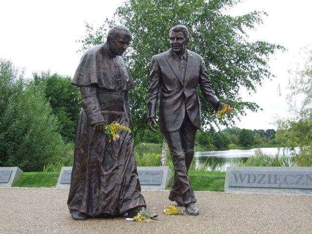 Statues of Ronald Reagan and Pope John Paul II in Ronald Reagan Park, Gdańsk, Poland